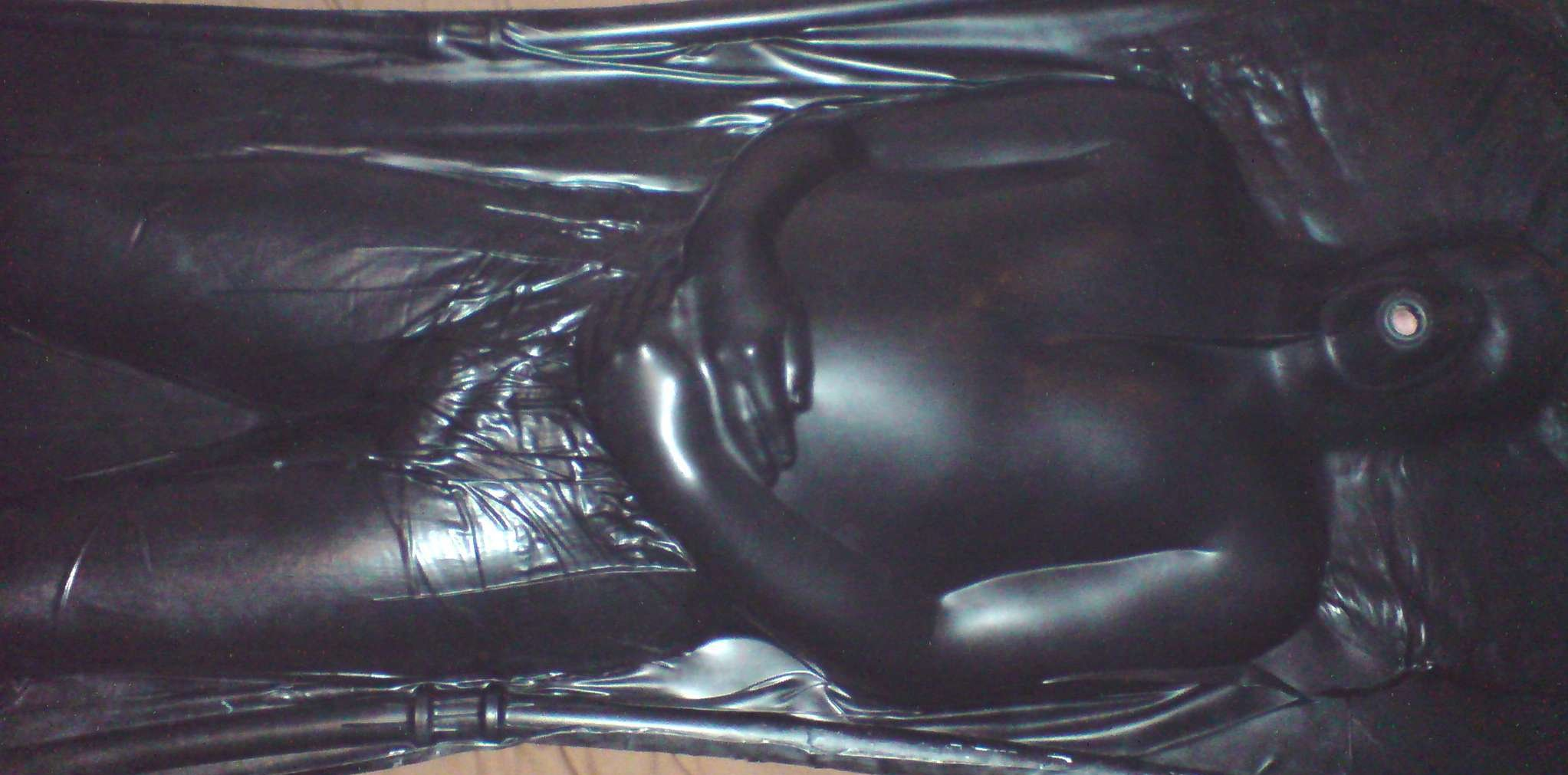 Vacuum bed